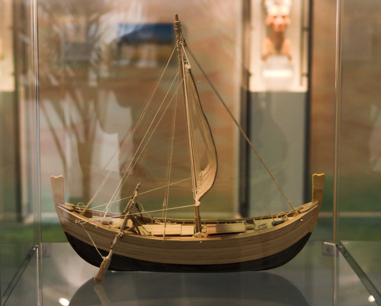 Information Description: Wooden model from the Shipwreck from Uluburun. Source: own work Date: June 2006 Author: Martin Bahmann